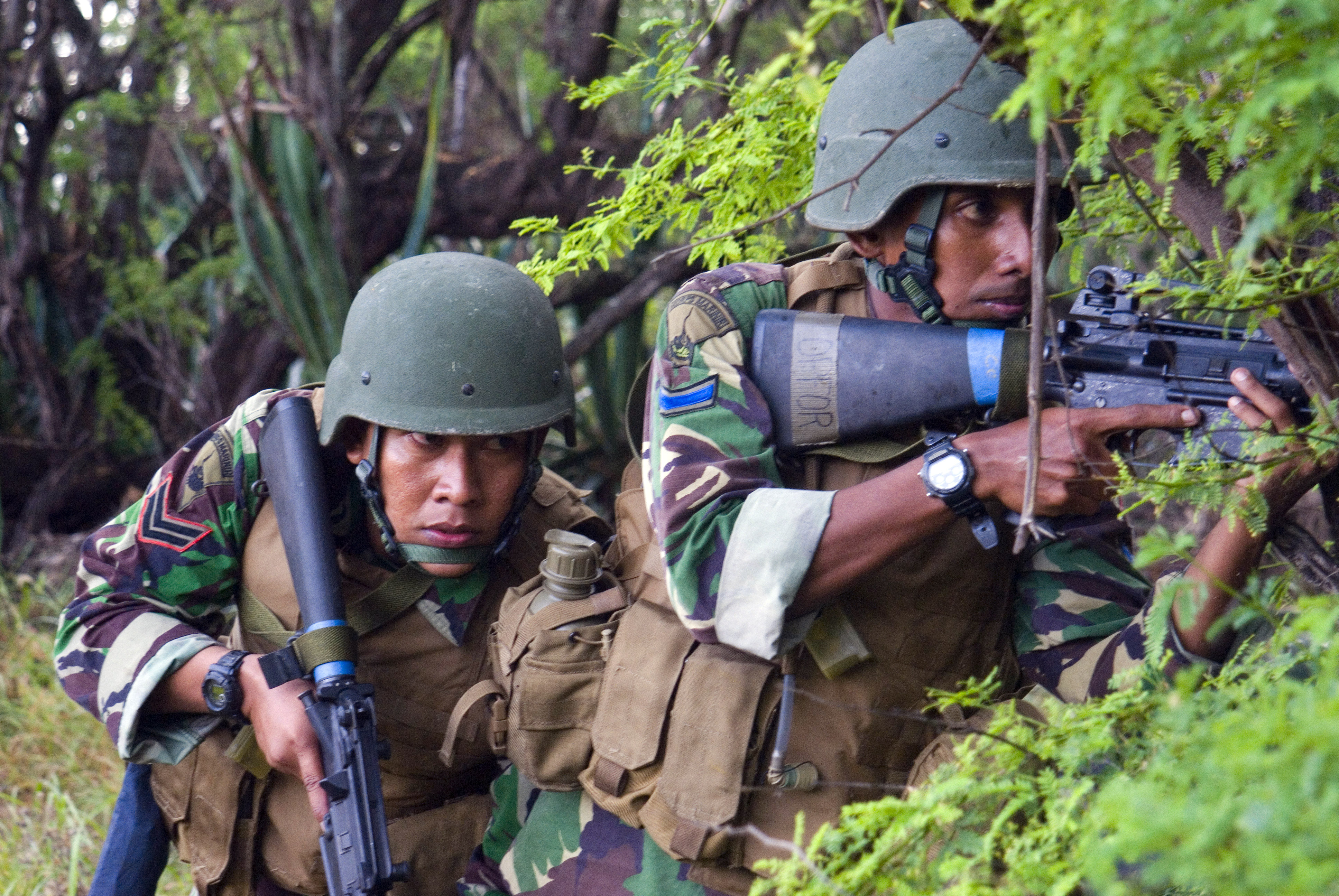 BARKING SANDS, Hawaii (July 14, 2008) Indonesian Marines take cover during a beach assault exercise at Pacific Missile Range Facility Barking Sands as part of this year's Rim of the Pacific (RIMPAC) 2008 exercise. RIMPAC is the world's largest multinational exercise and is scheduled biennially by the U.S. Pacific Fleet. Participants include the United States, Australia, Canada, Chile, Japan, Netherlands, Peru, Republic of Korea, Singapore, and the United Kingdom. U.S. Navy photo by Mass Communication Specialist 2nd Class Paul D. Honnick (Released)